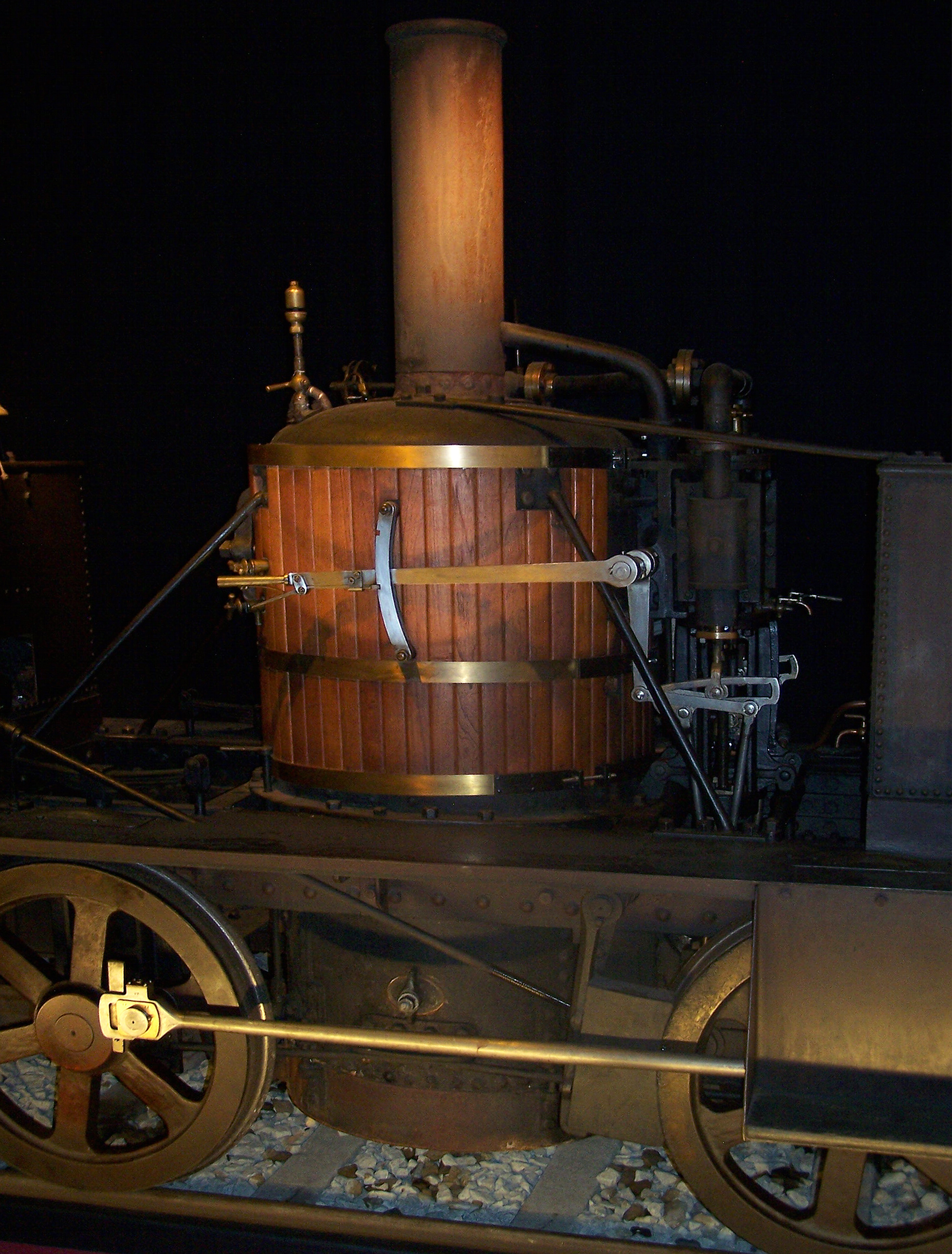 Boiler of the historic danish steam locomotive Gamle Ole from 1869 in the Transport Museum in Nuremberg in the exhibition "Adler, Rocket and Co."